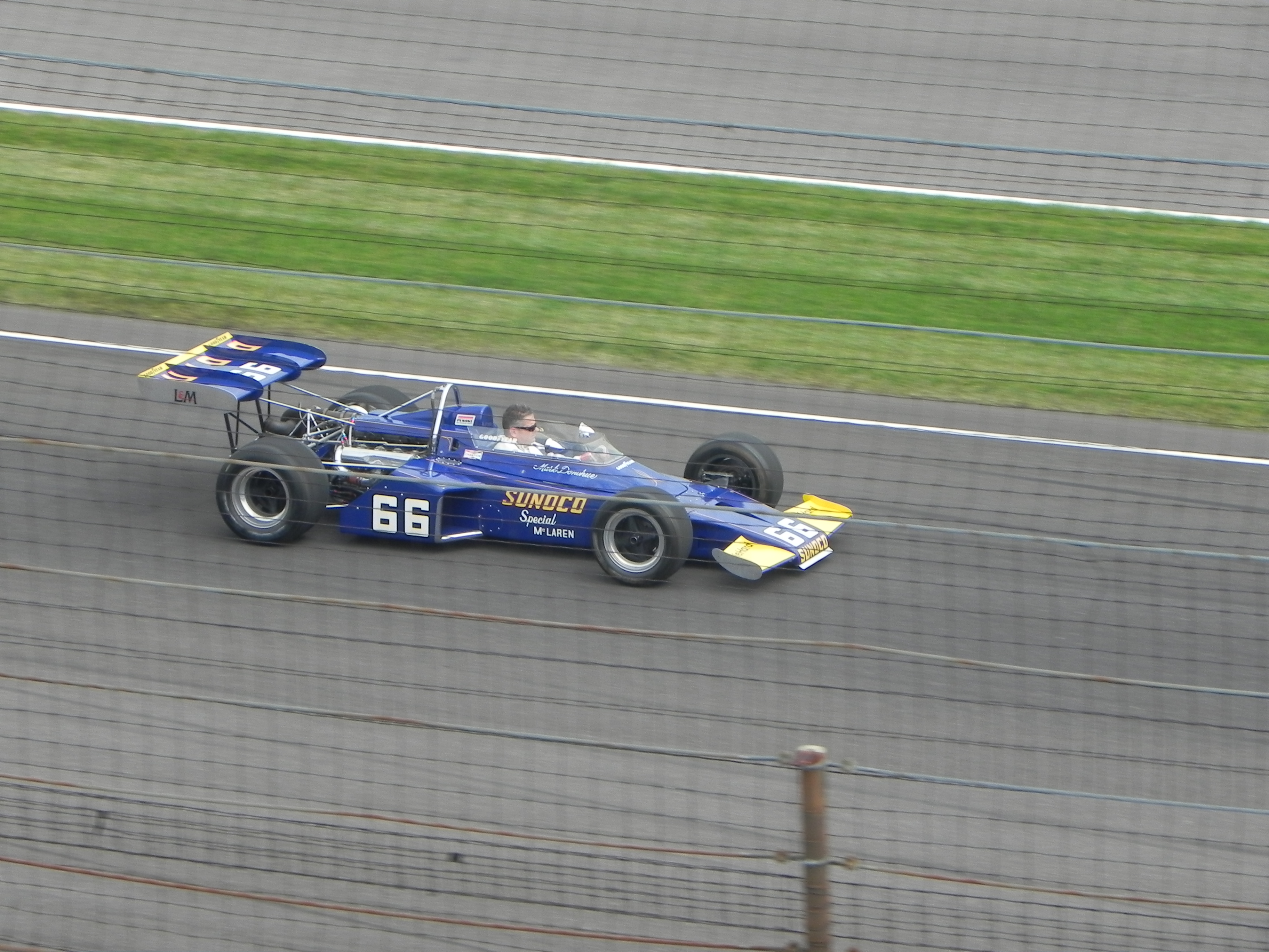 Image of the winning car of the 1972 Indianapolis 500 (Mark Donohue). Photo was taken at the Indianapolis Motor Speedway in May 2011.